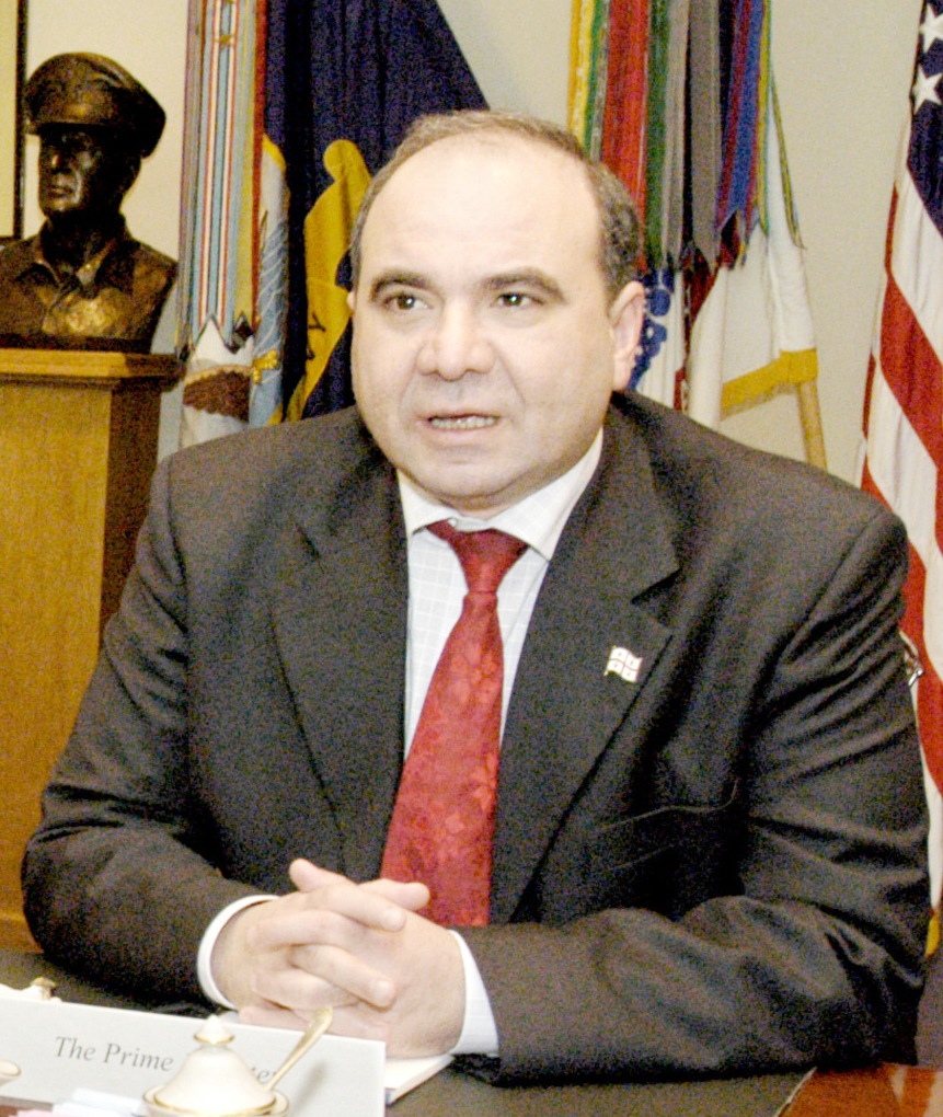 Georgia's Prime Minister Zurab Zhvania (right) and Minister of Defense Gela Bezhuashvili (center) meet with Deputy Secretary of Defense Paul Wolfowitz (foreground) in the Pentagon.